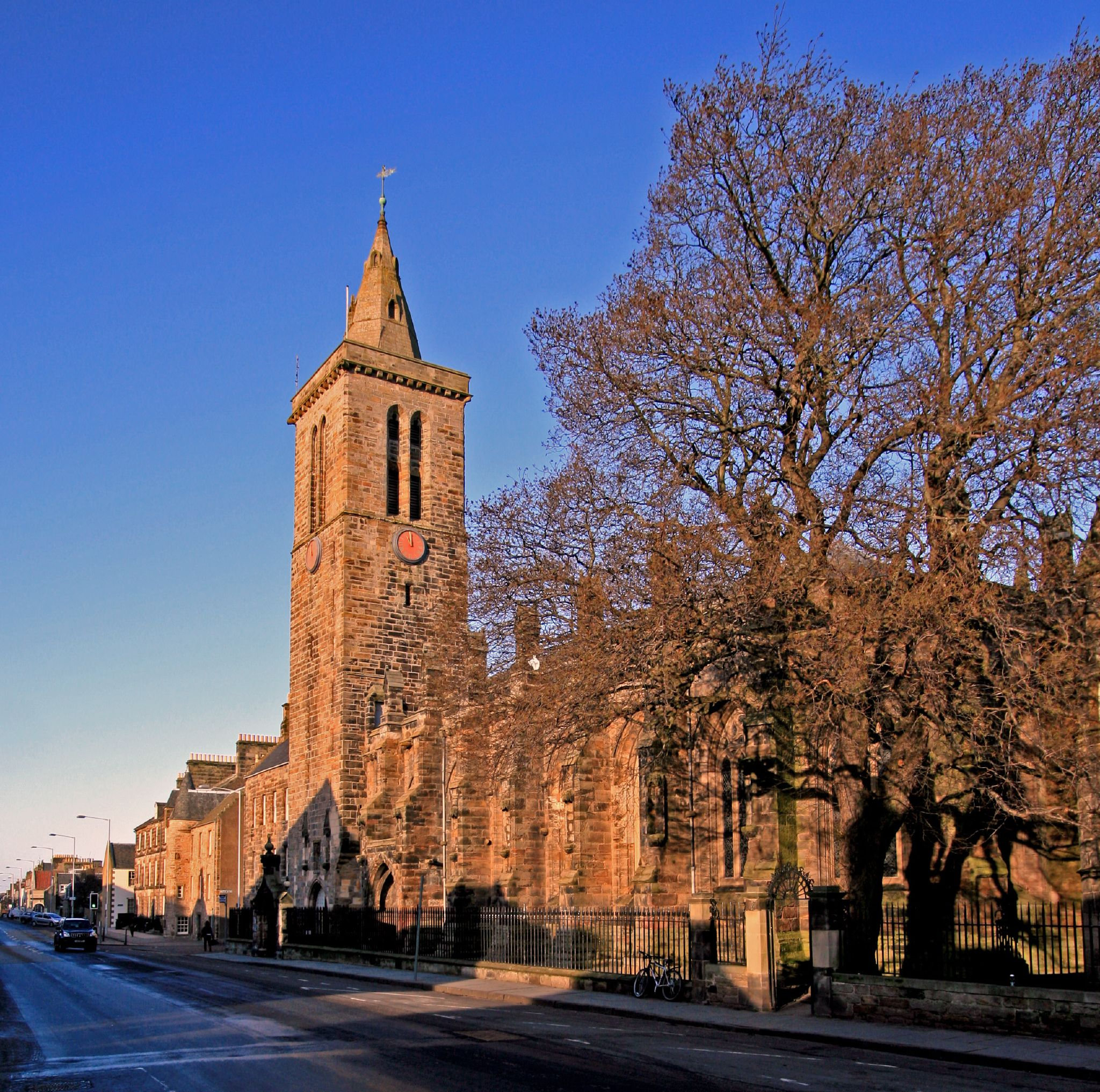 St Andrew's, Fife, Scotland. St Salvators chapel and north street.